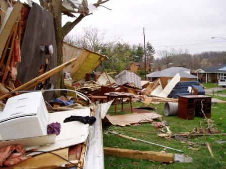 Tornadic damage in the Corydon, Kentucky area